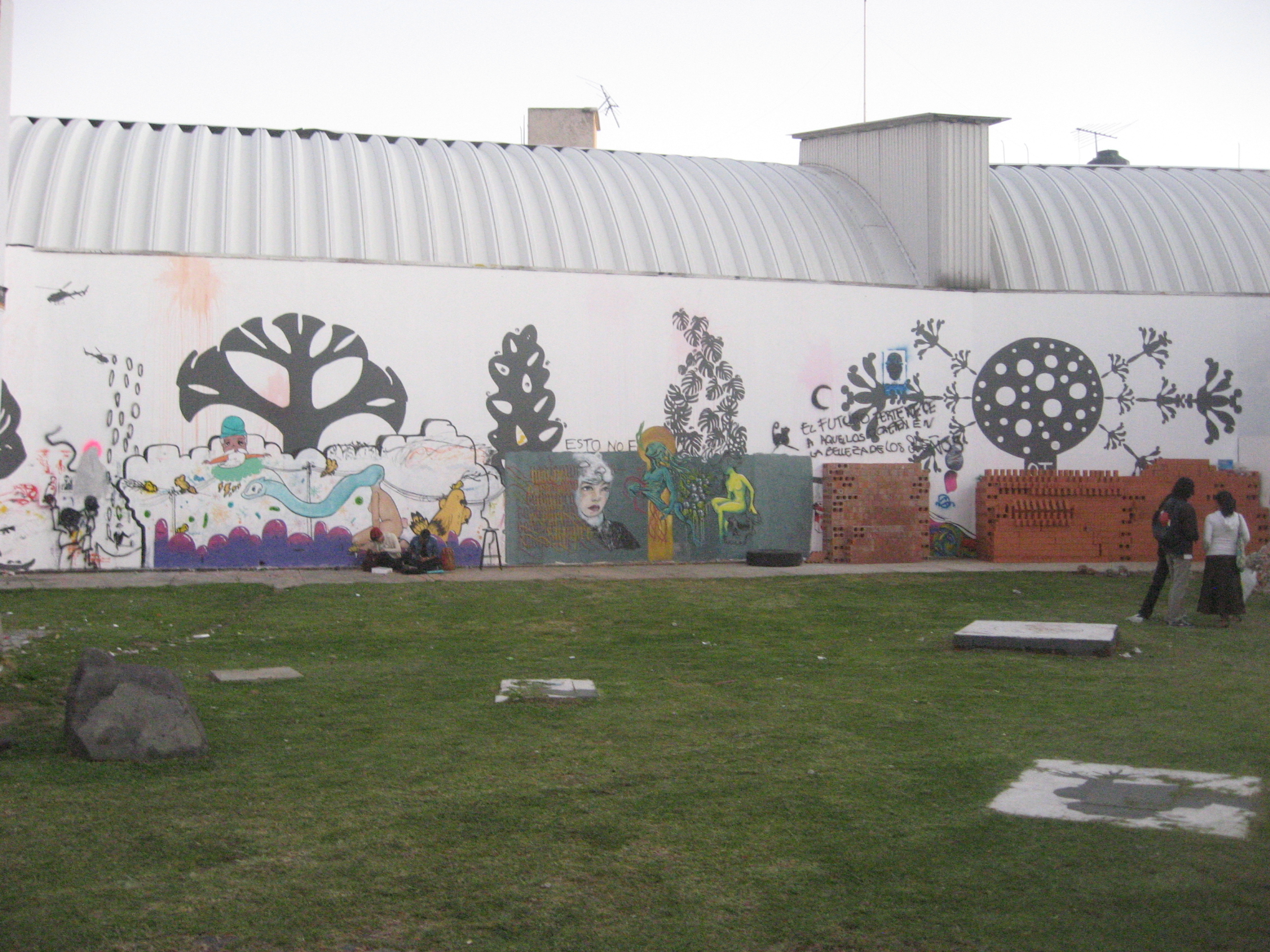 enap4